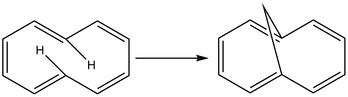 Transannular strain can be relieved by making a bicyclic molecule.